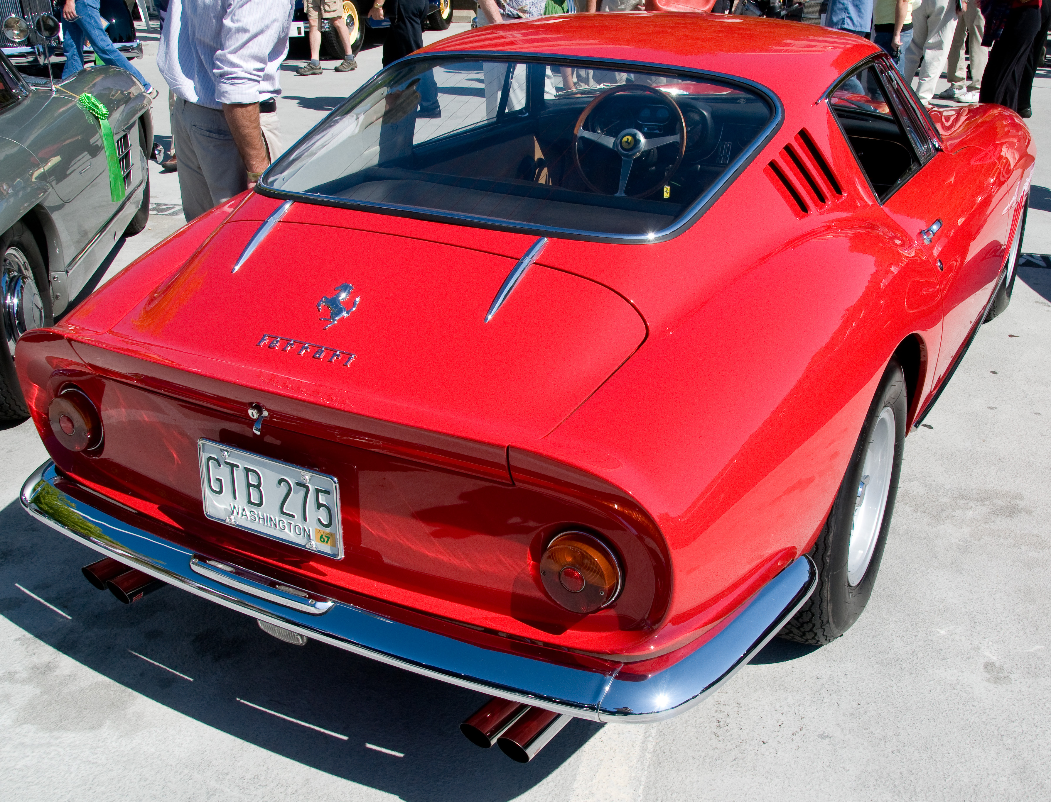 This car looks like a million bucks. (literally)